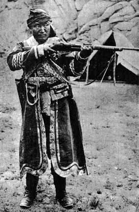 Ja Lama